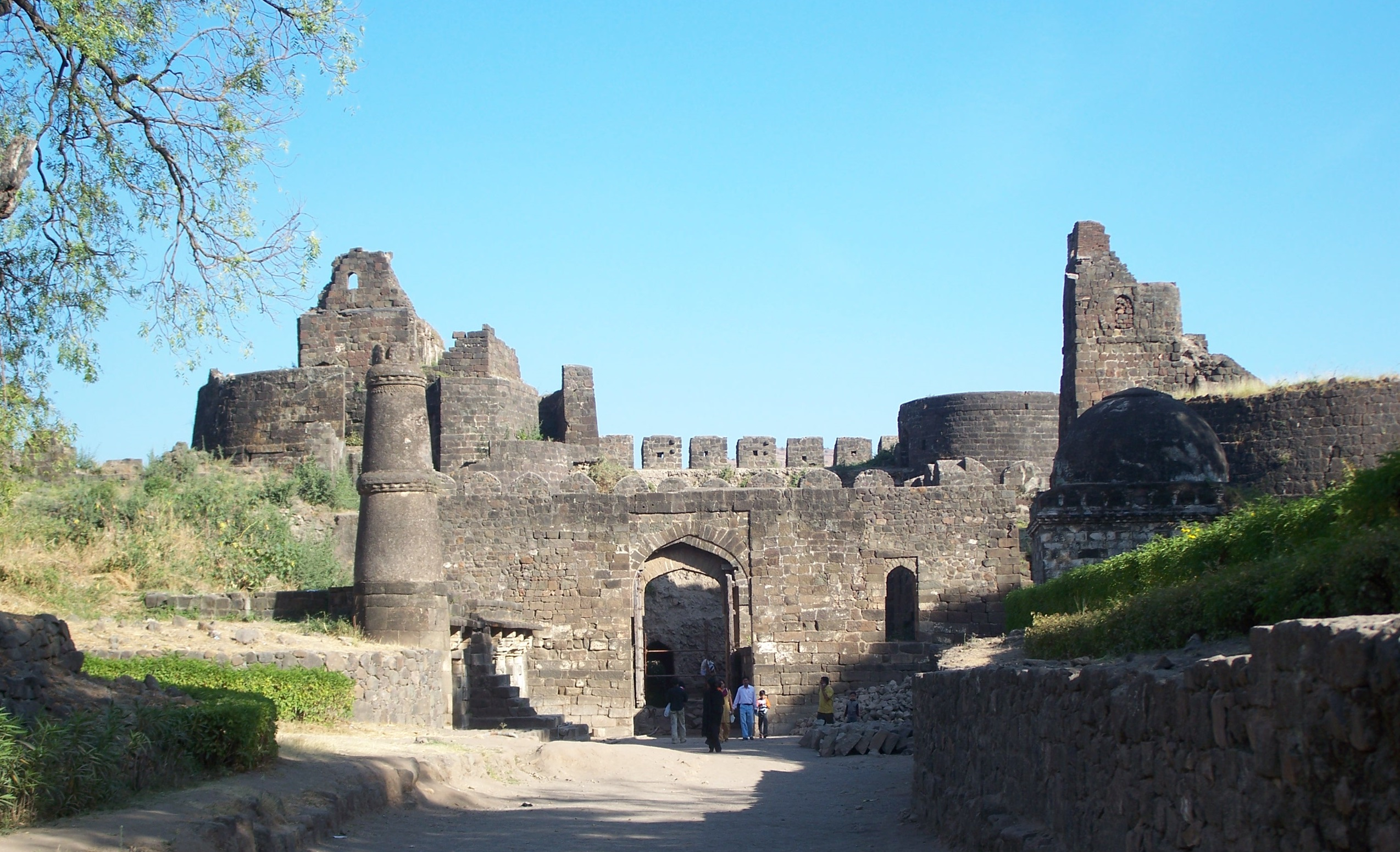 Daulatabad fort(Deogiri Fort), Aurangabad, India built by the Yadav King.